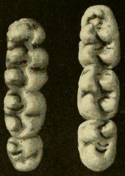 Upper (left) and lower (right) molars of Oryzomys palustris. This is specimen USNM 75203, a subadult male from Dismal Swamp, Virginia.